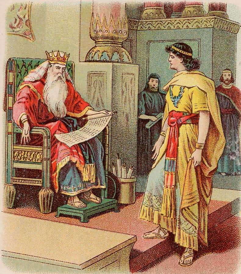 David's Love for God's House, as in 1 Chronicles 22:6-16, illustration from a Bible card published by the Providence Lithograph Company